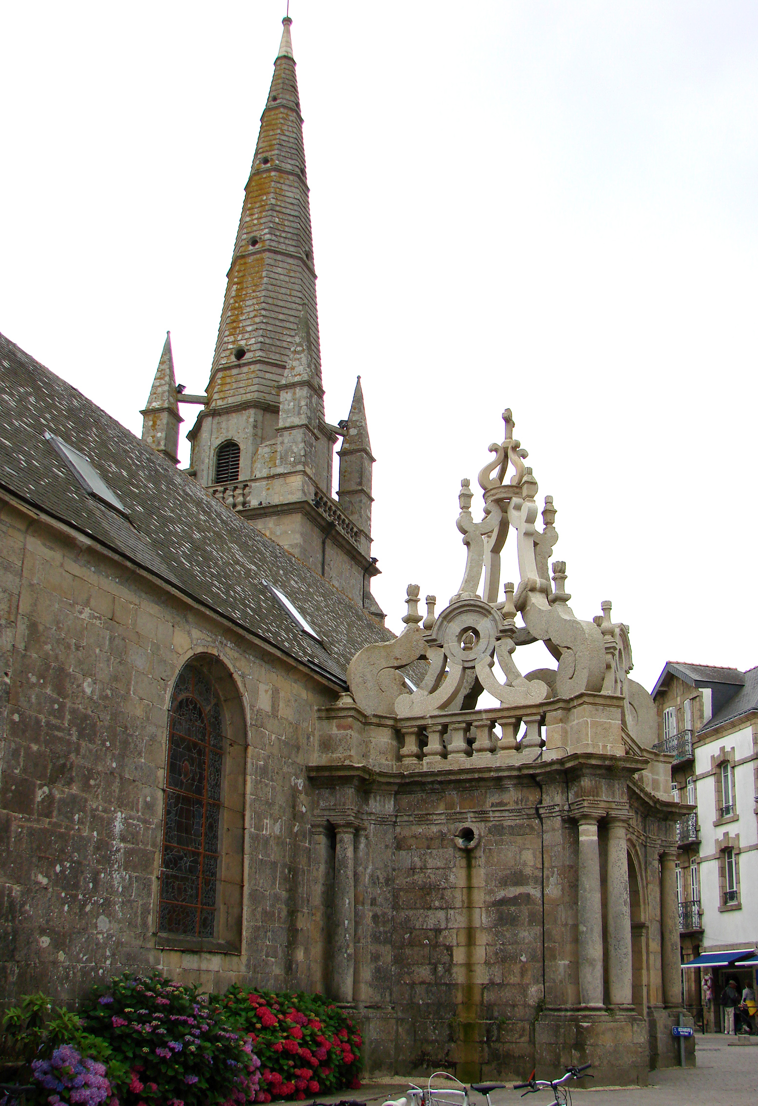 Saint Cornely Church, Carnac church, in Brittany (France).